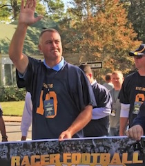 Cherry waving at the 2015 Murray State Racer Homecoming Parade.